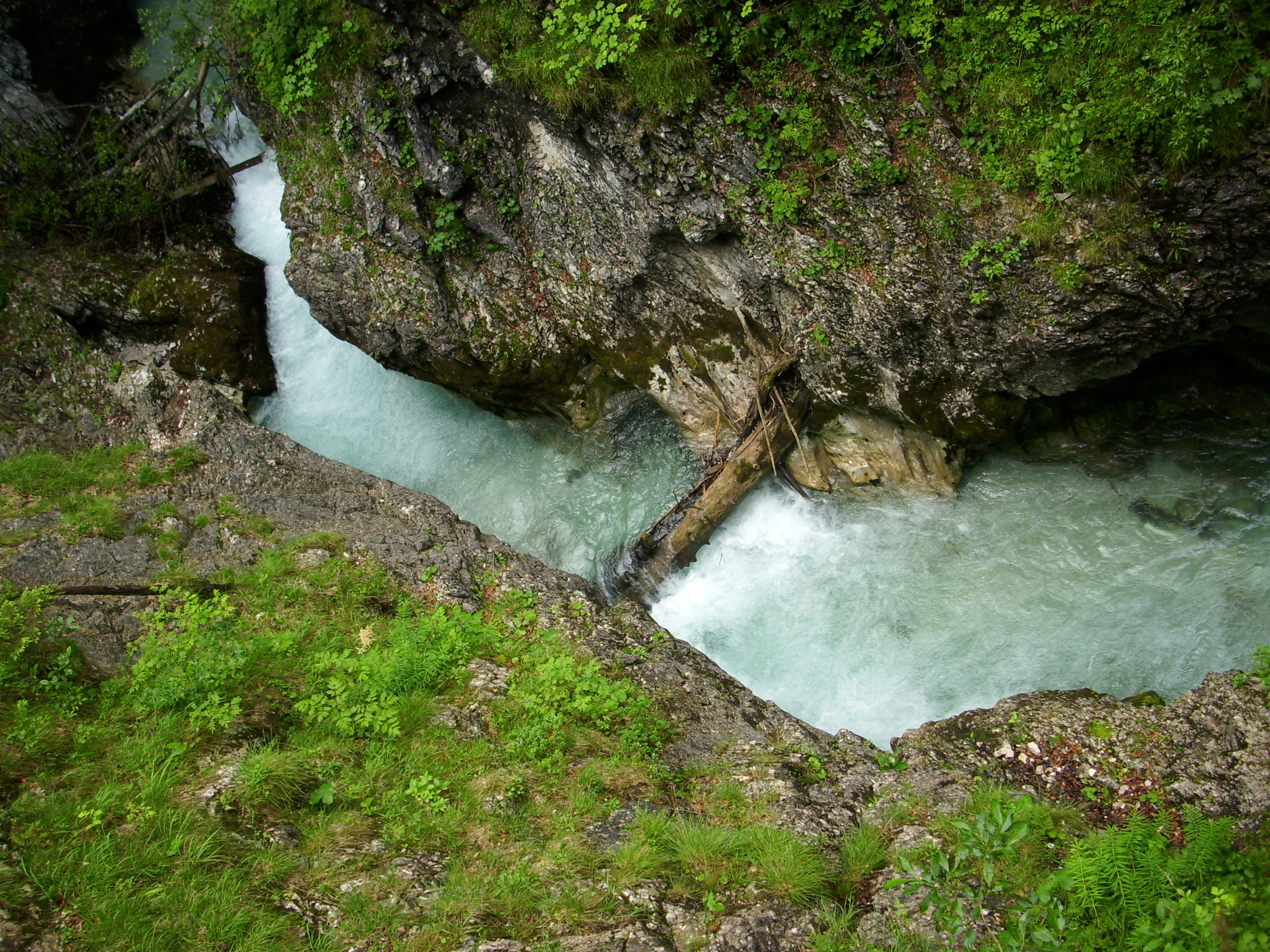 "Geisterklamm" near Mittenwald (Germany) and Unterleutasch (Austria)